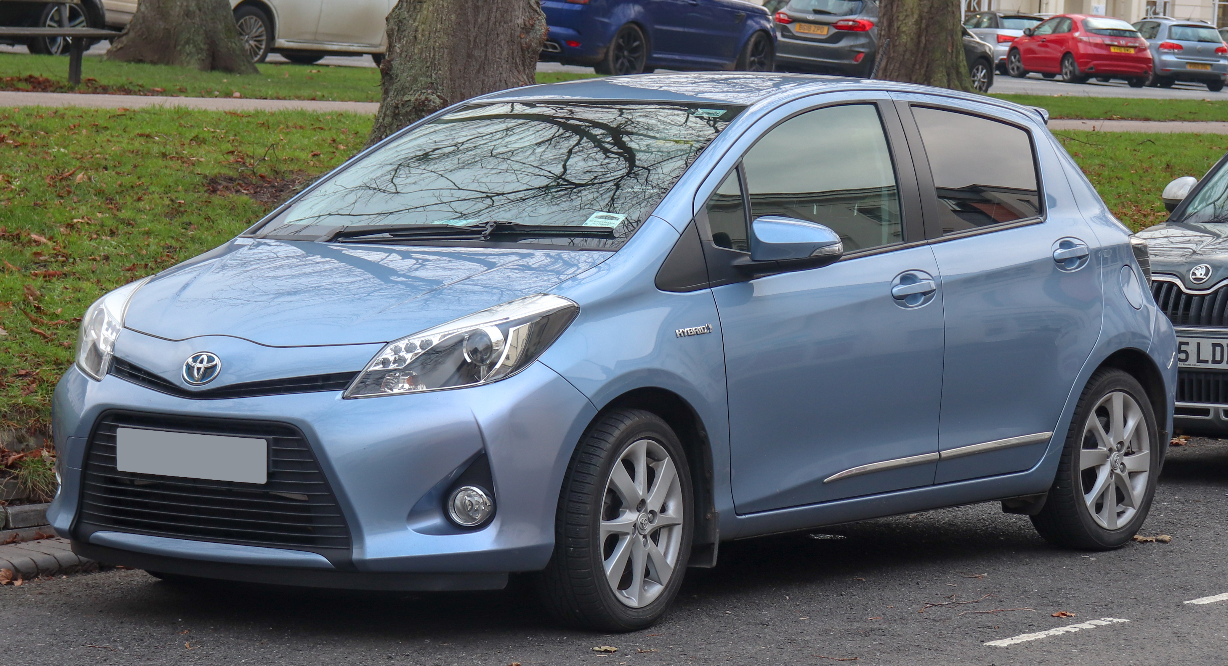 2013 Toyota Yaris T Spirit Hybrid CVT 1.5 Front Taken in Leamington Spa